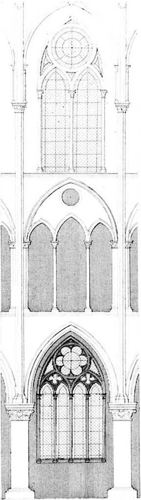 Bay in the Cathedral Notre-Dame de Paris.